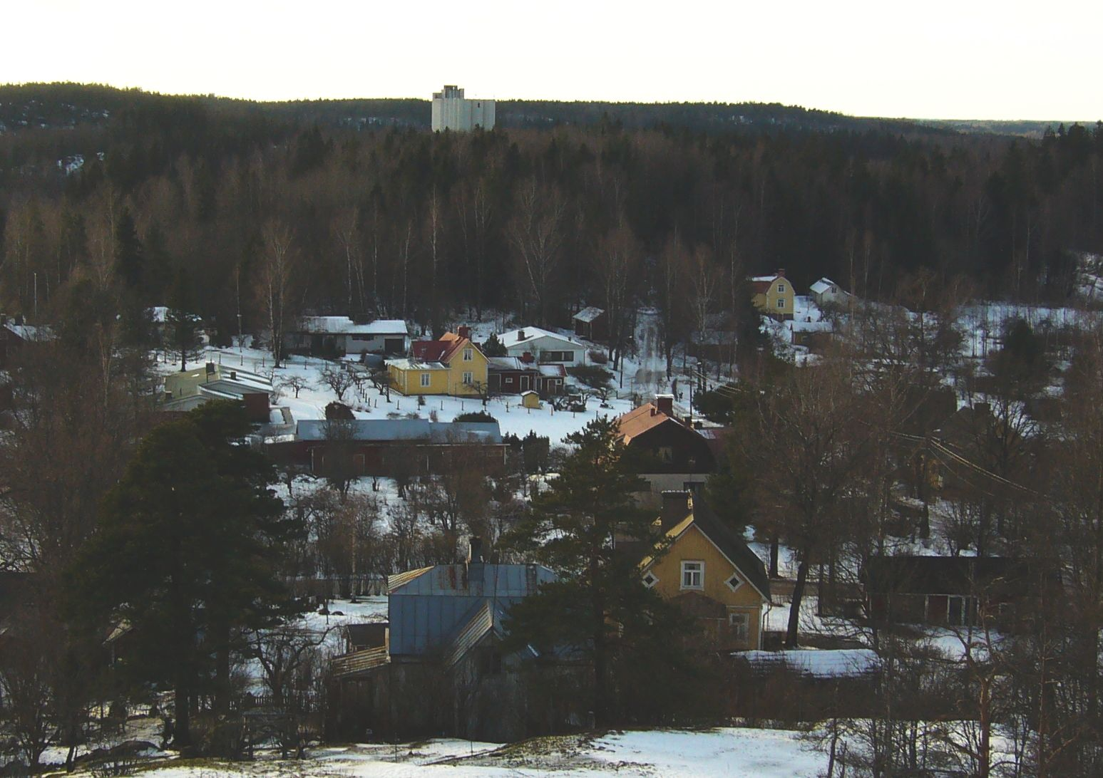 View of Kyrkstad from the top of Kukkumäki hill.